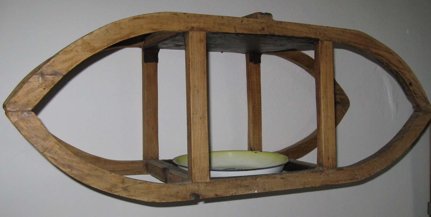 Catalan bed warmer